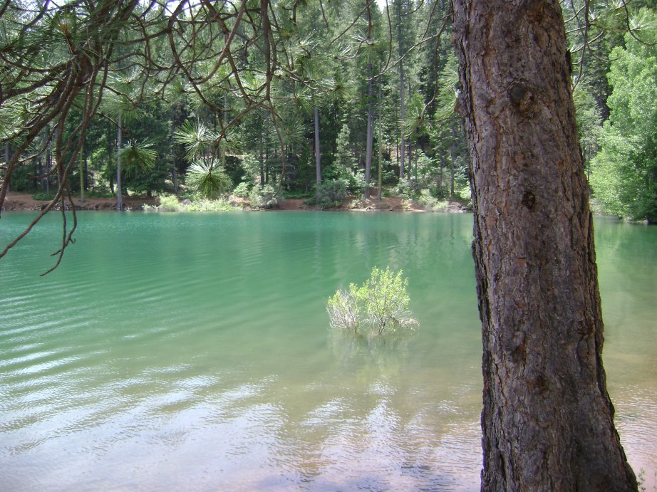 Sly Park, Pollock Pines, Calif.